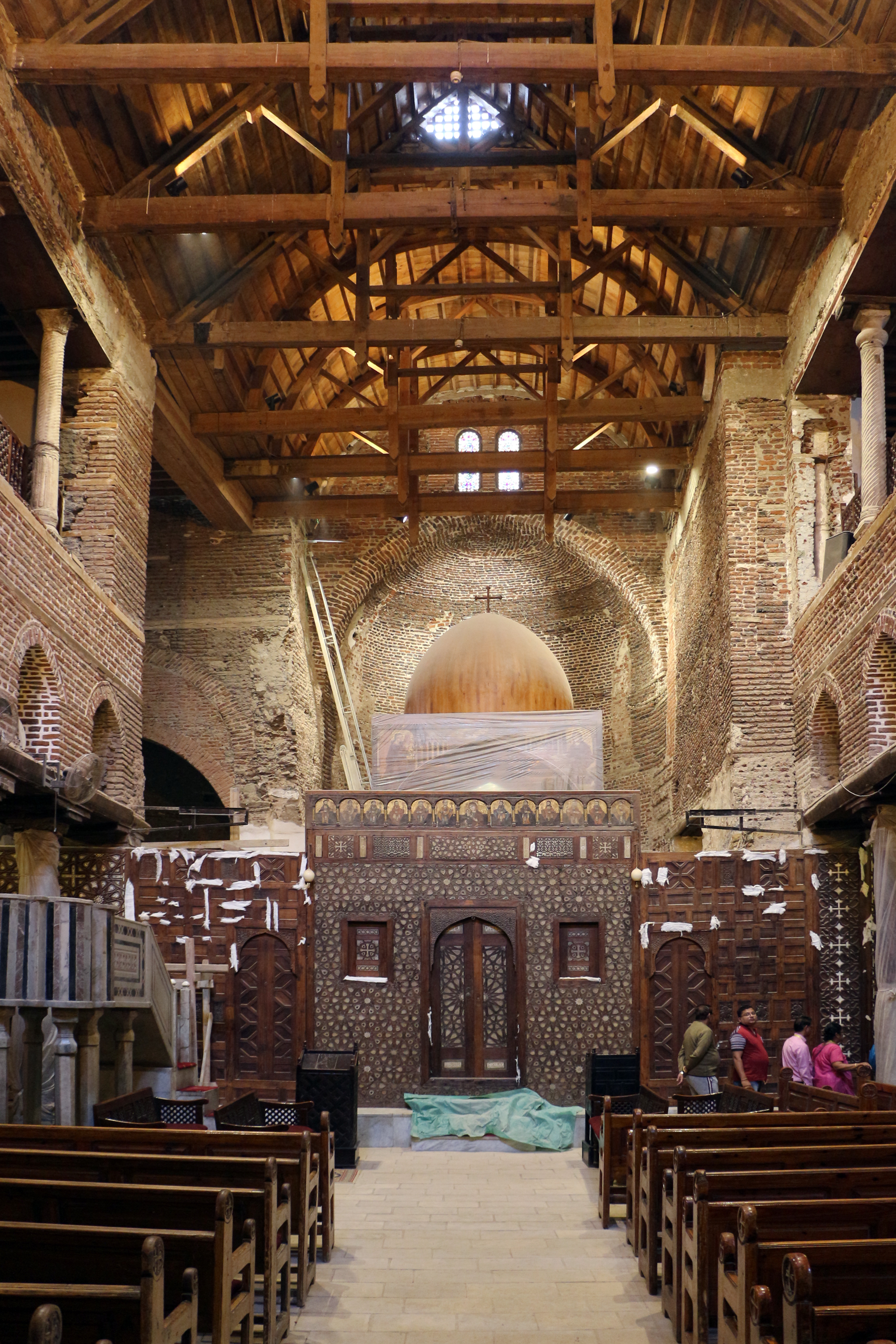 St. Sargius Church